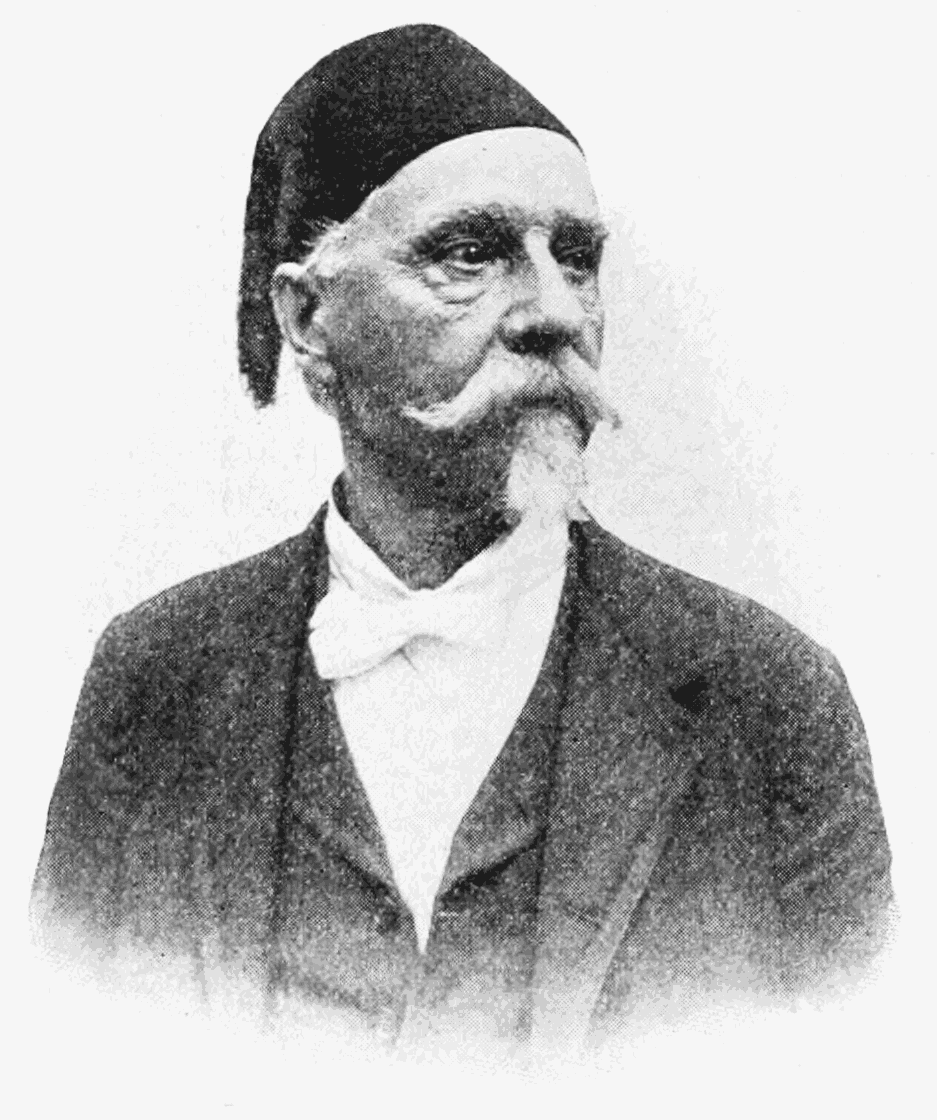 Portrait photograph of Henry Ulke, German-American portrait painter and entomologist.